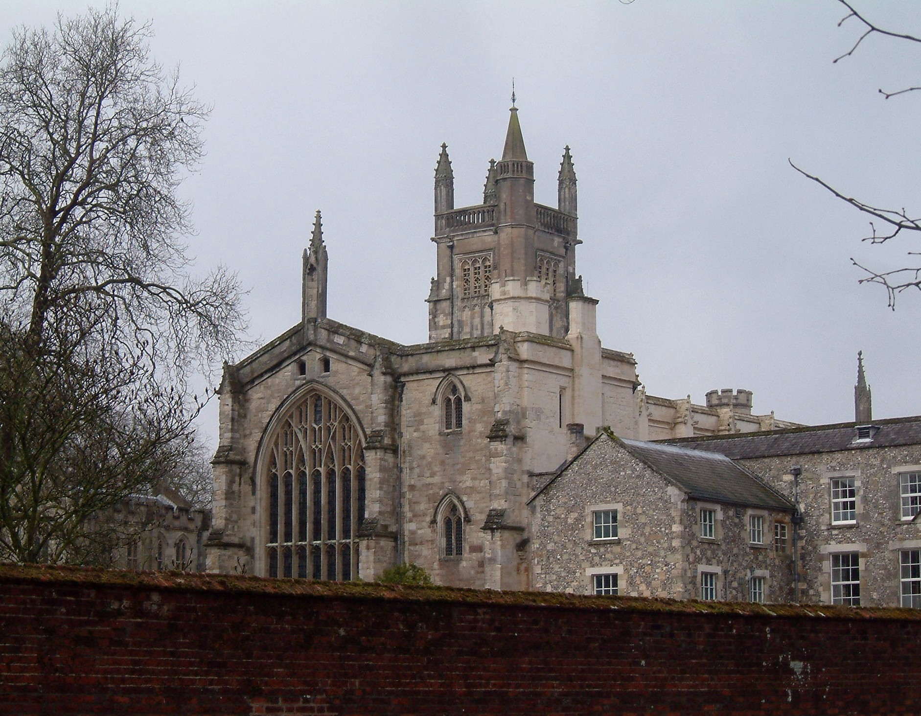 Winchester College Chapel, Hampshire